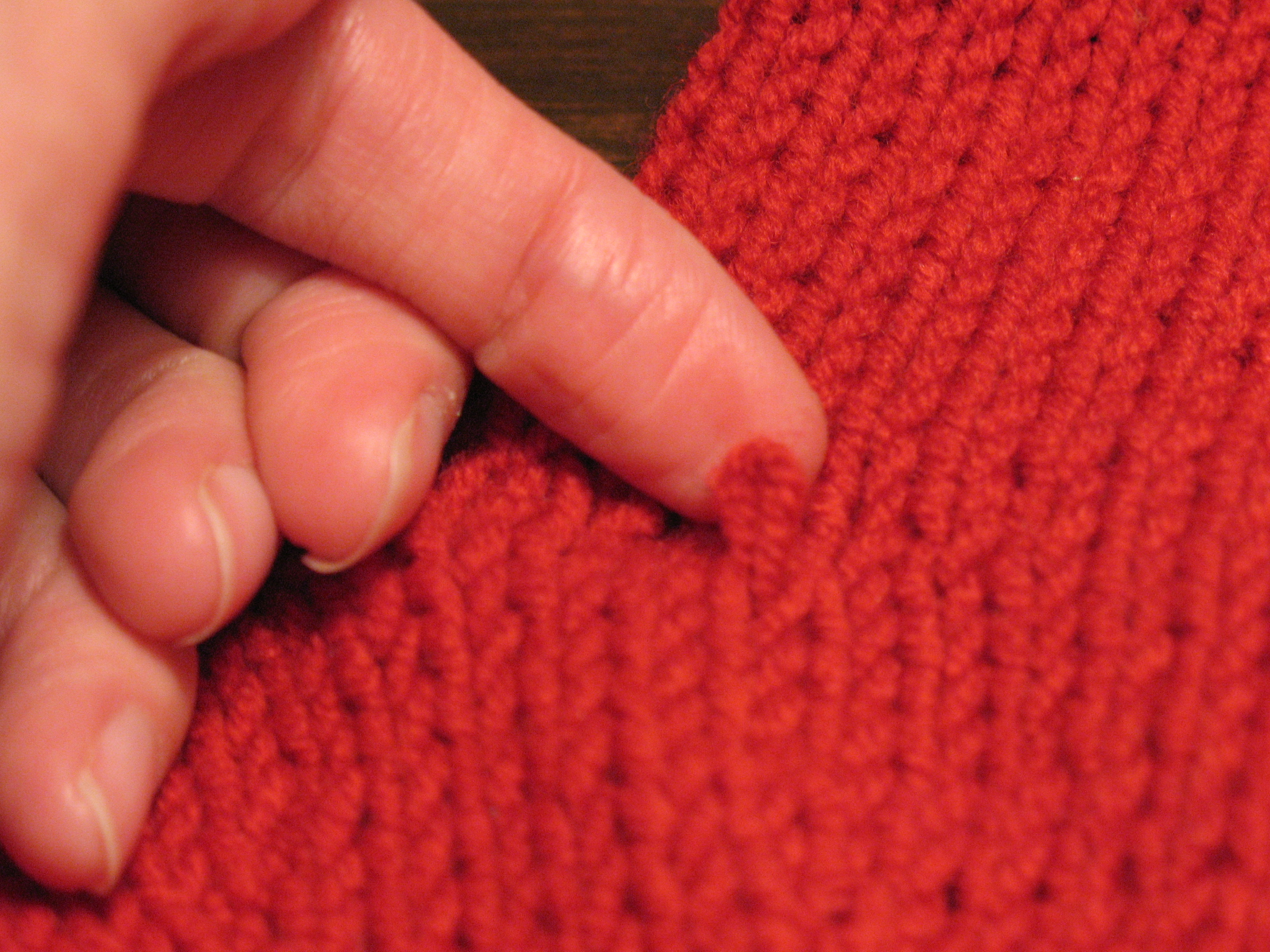 A slipped stitch made in error while knitting